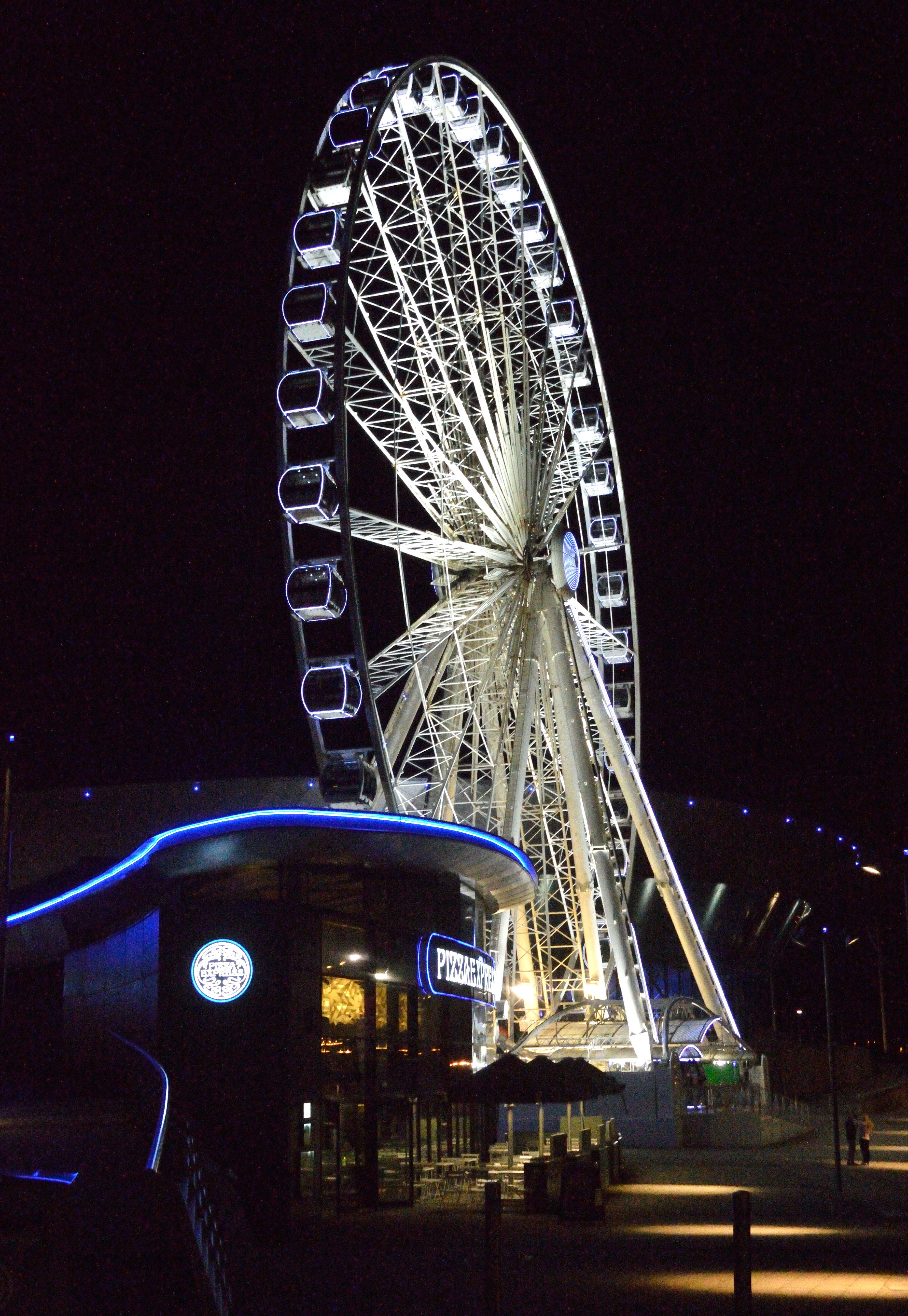 The Wheel of Liverpool, at night from the north-east. A Pizza Express restaurant is in the foreground.